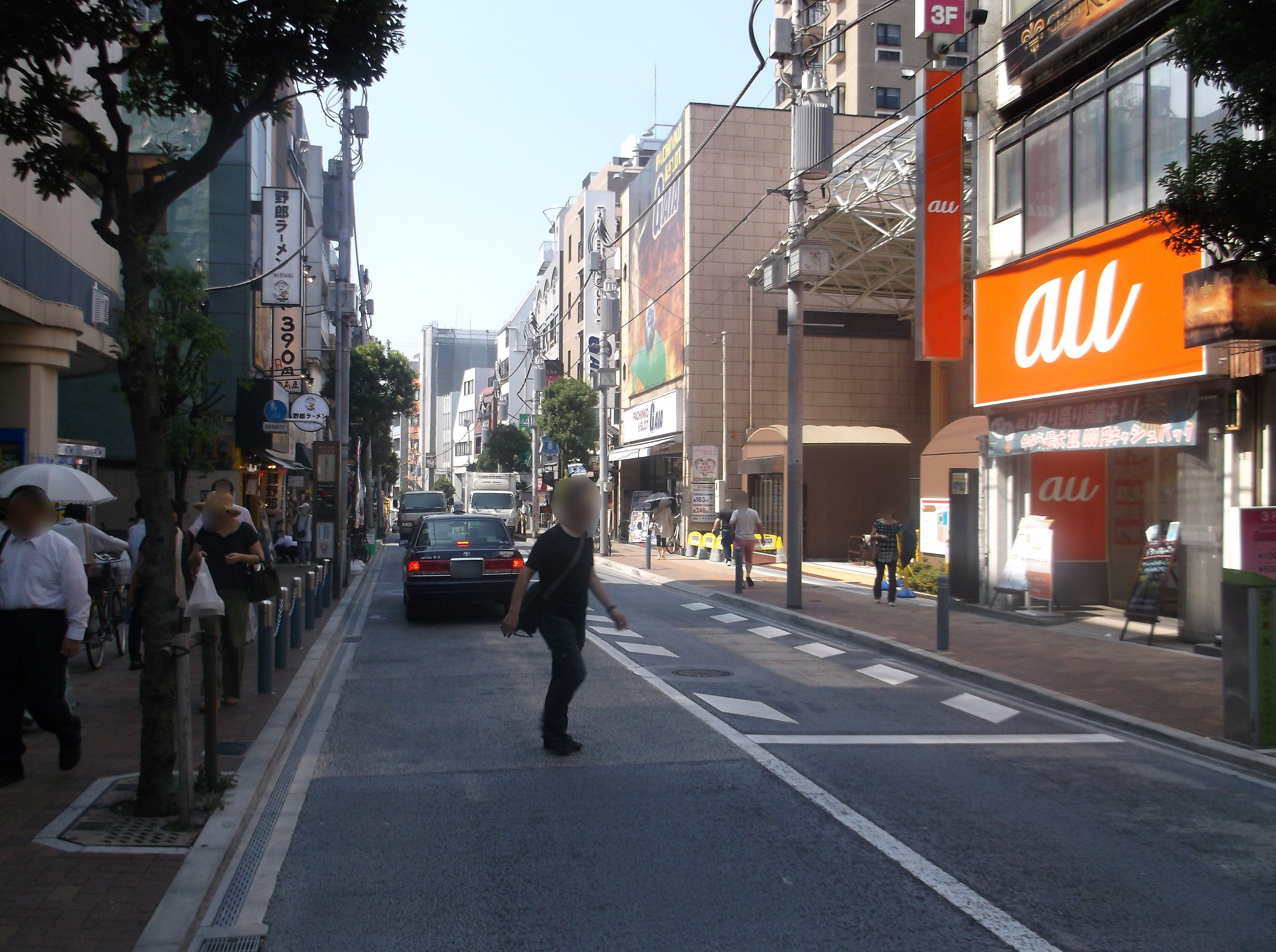 A photo of Chazawa dori street.Setagaya-ku,Tokyo.Japan.